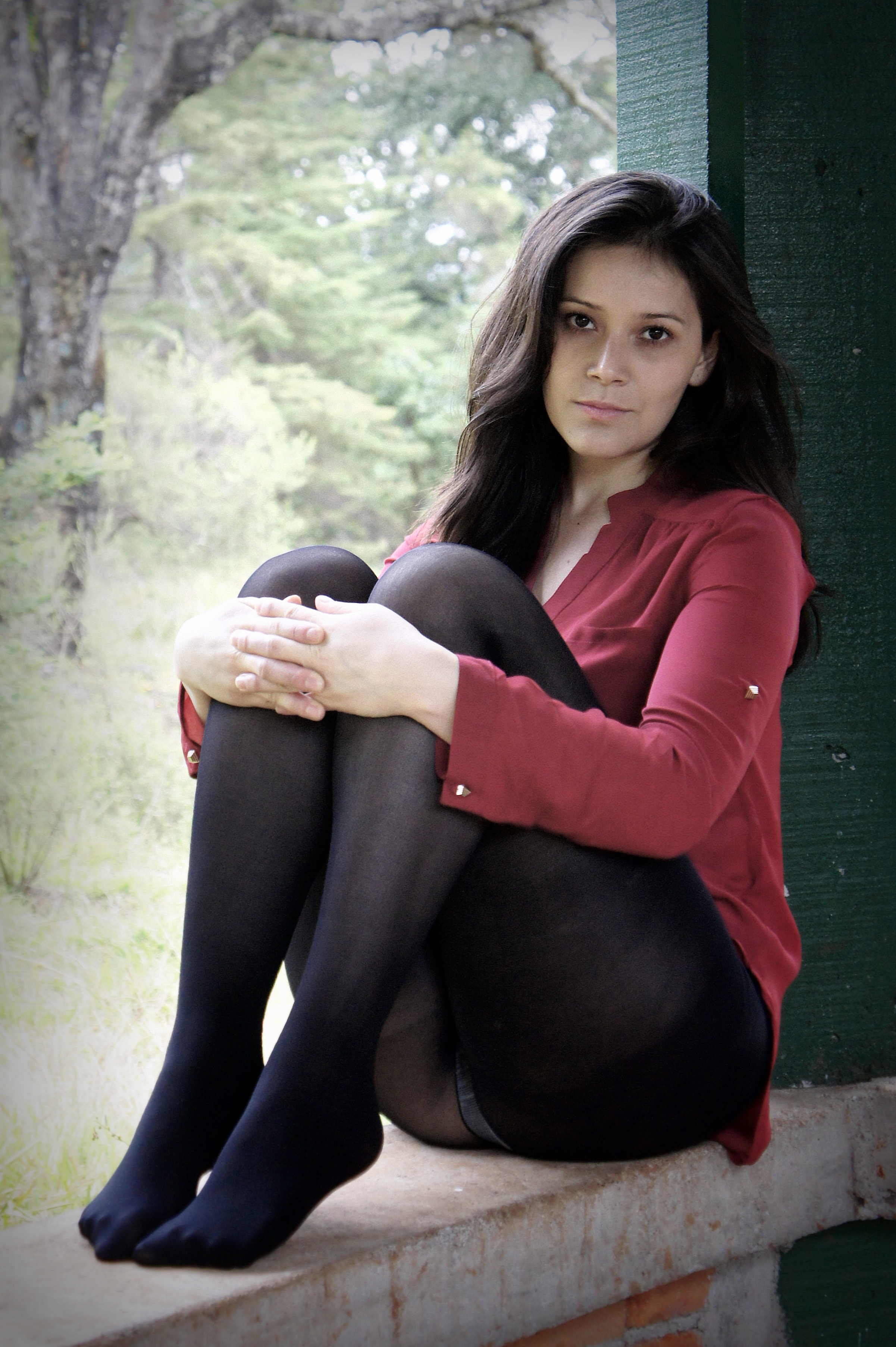 Girl in red shirt and black synthetic tights with cotton gusset.